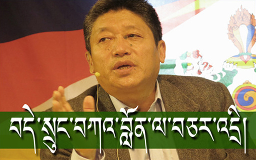 P་Kunleng invites Kalon Ngodup Dongchung to discuss the Central Tibetan Administration’s handling of new arrivals from Tibet, the Kashag’s position on the current crises in Tibet, and today’s work environment for CTA civil servants from the perspective of one of the longest serving Tibetan officials.